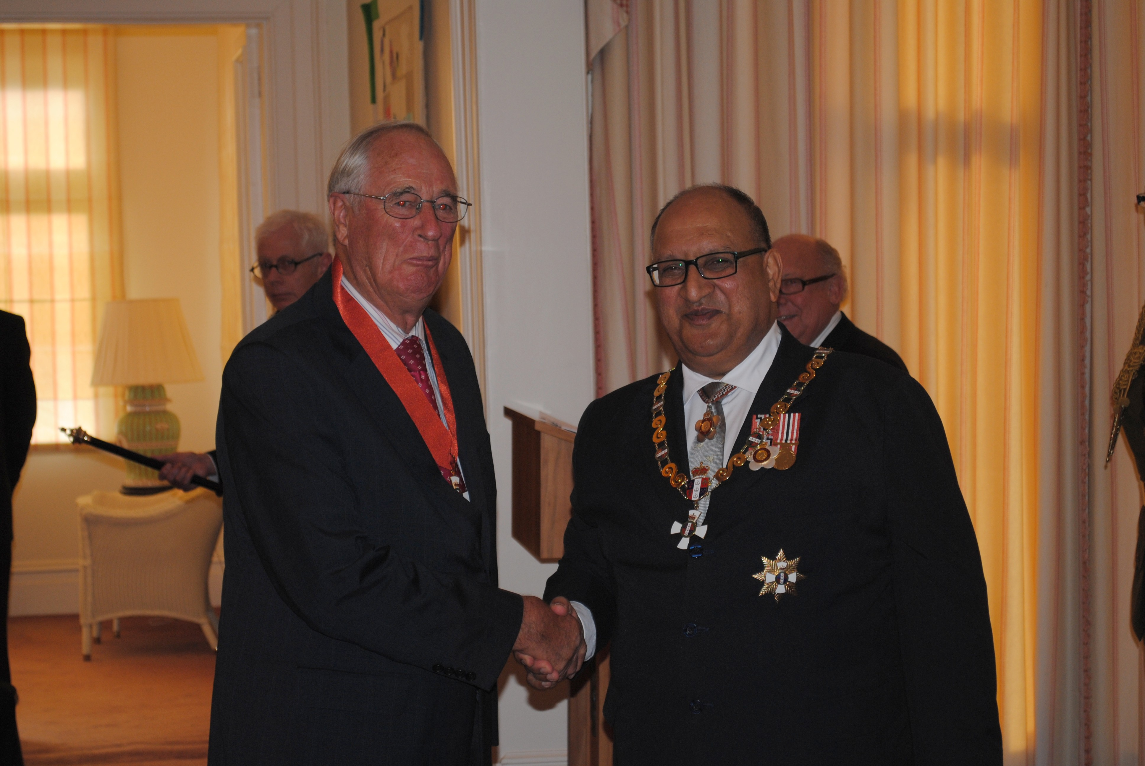 Ian Templeton (left), after his investiture as CNZM, for services to journalism, by the governor-general, Sir Anand Satyanand, on 29 April 2010